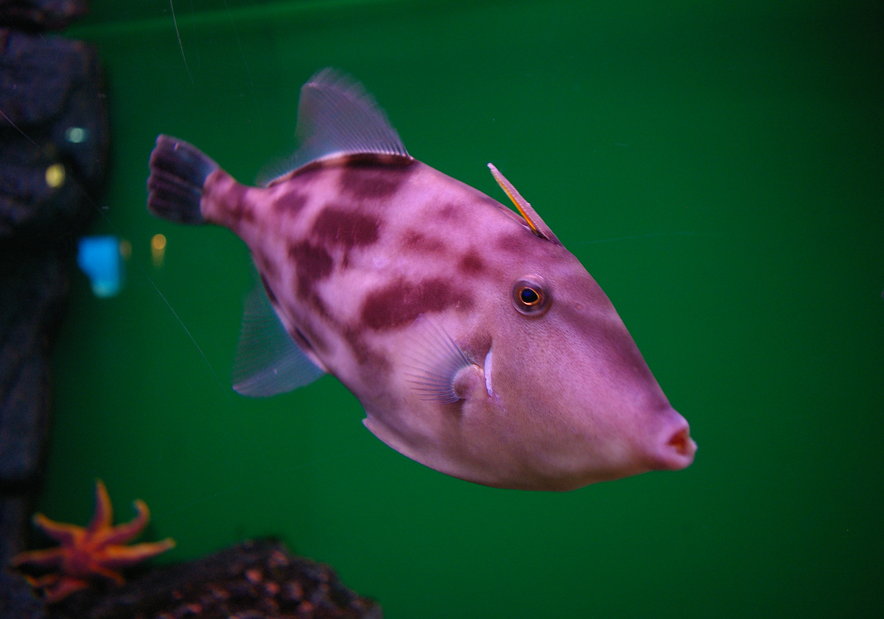 qThamnaconus modestus, Nixe Marine Park, Noboribetsu, Hokkaidō, Japan